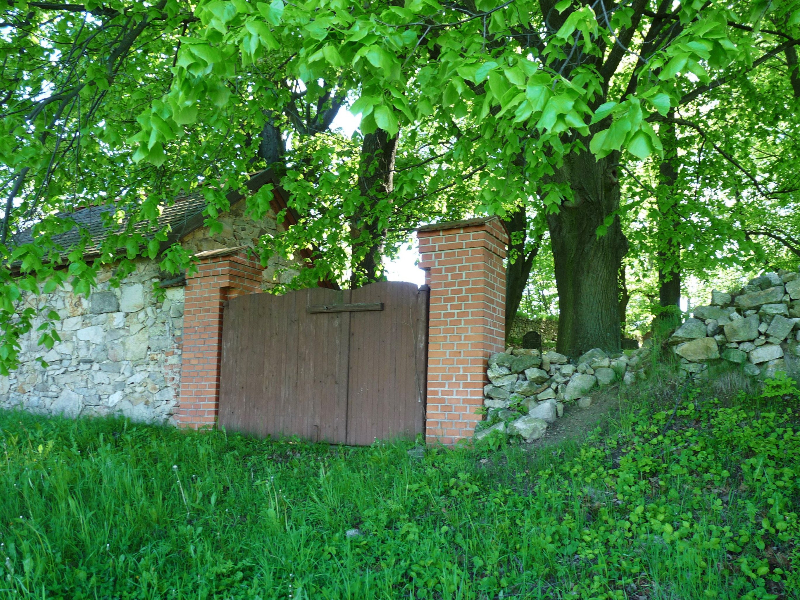 Gate of the Jewish cemetery by the town of Jistebnice, Tábor District, South Bohemian Region, Czech Republic.